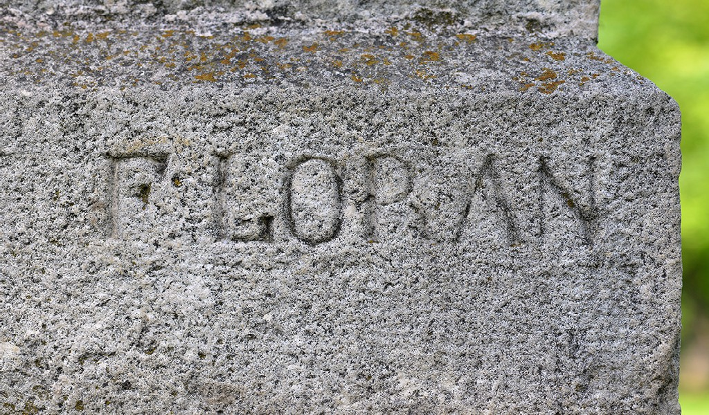 Obelisk in Topčiderski park- Belgrade, signature of stonecutter Franc Loran